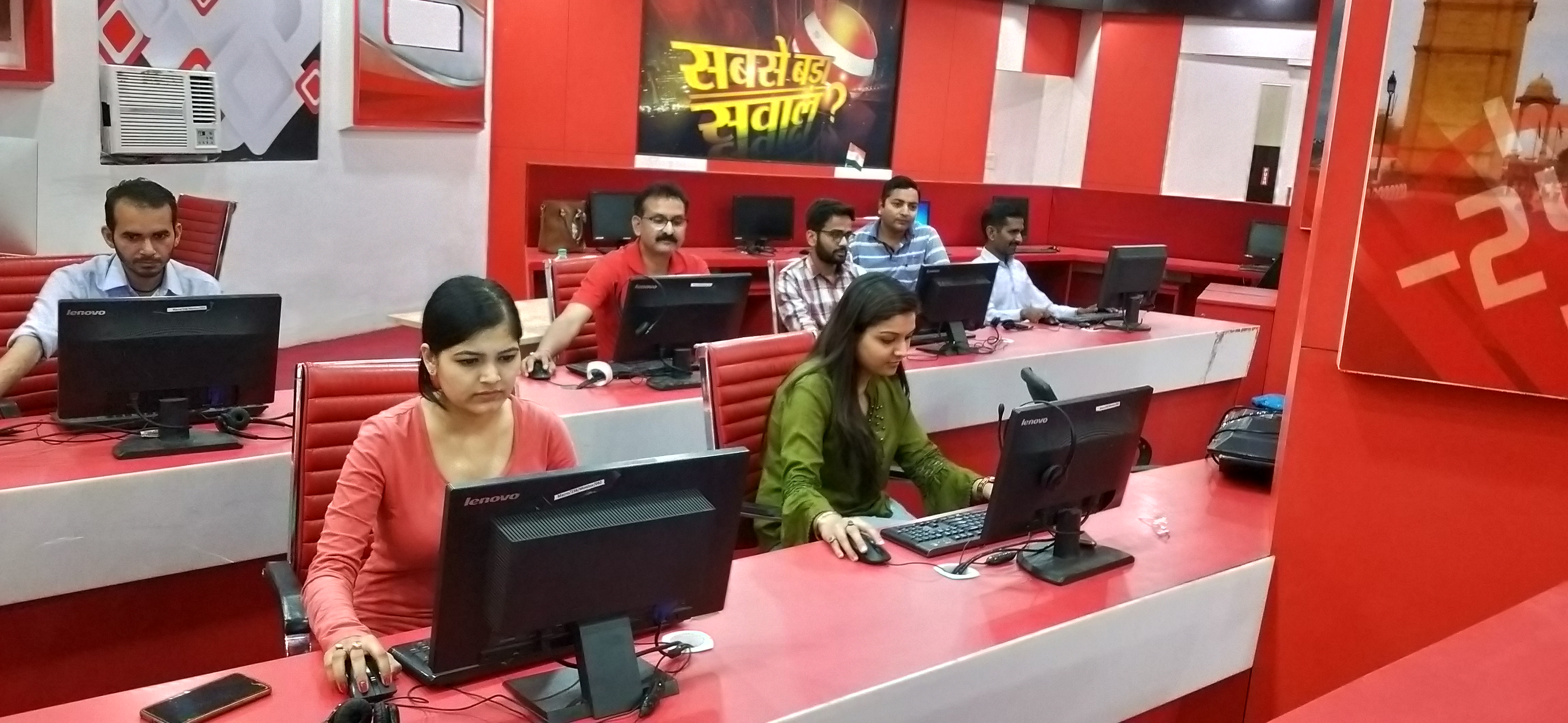 News Room of TV 24